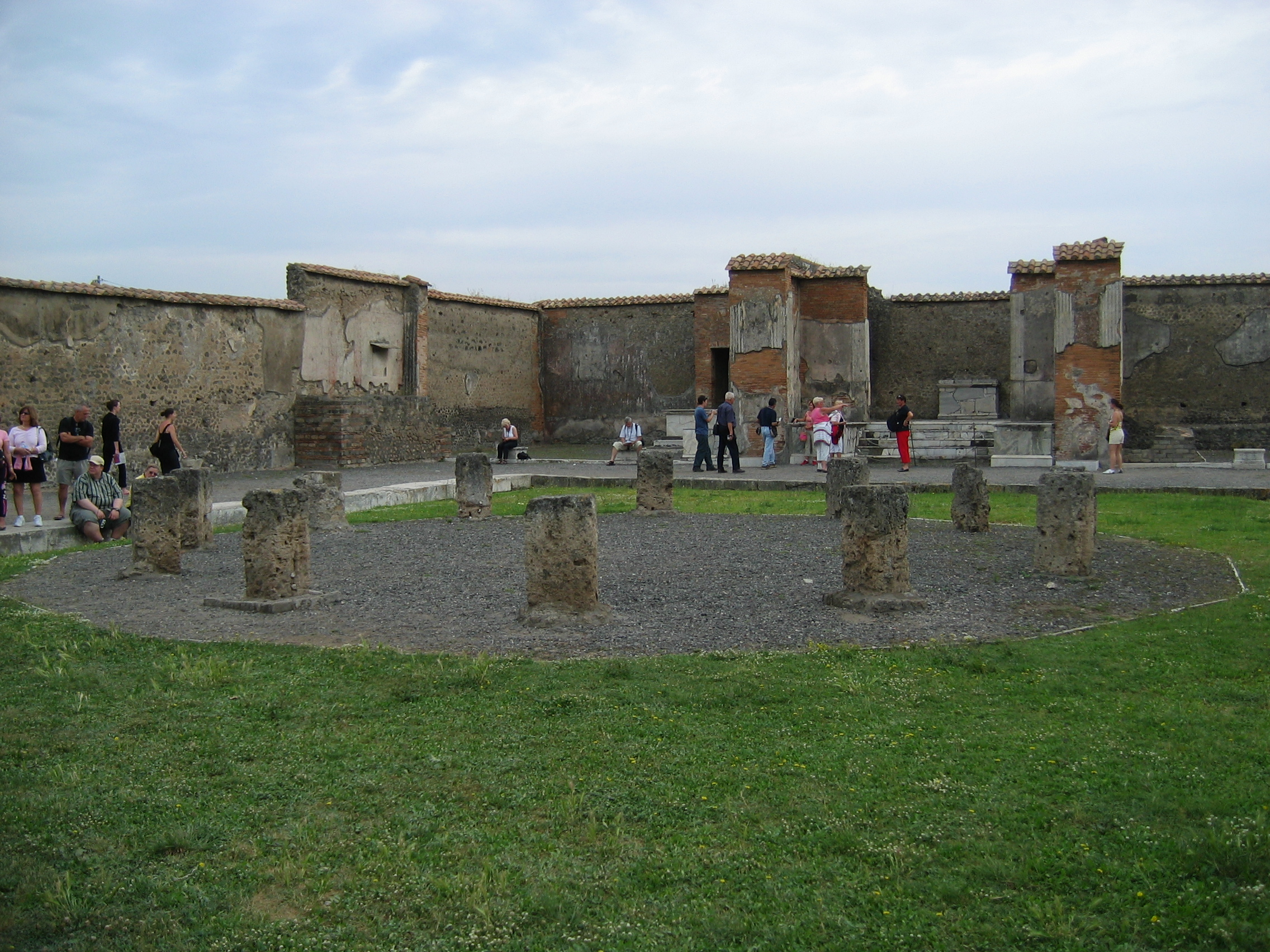 The macellum, Pompeii